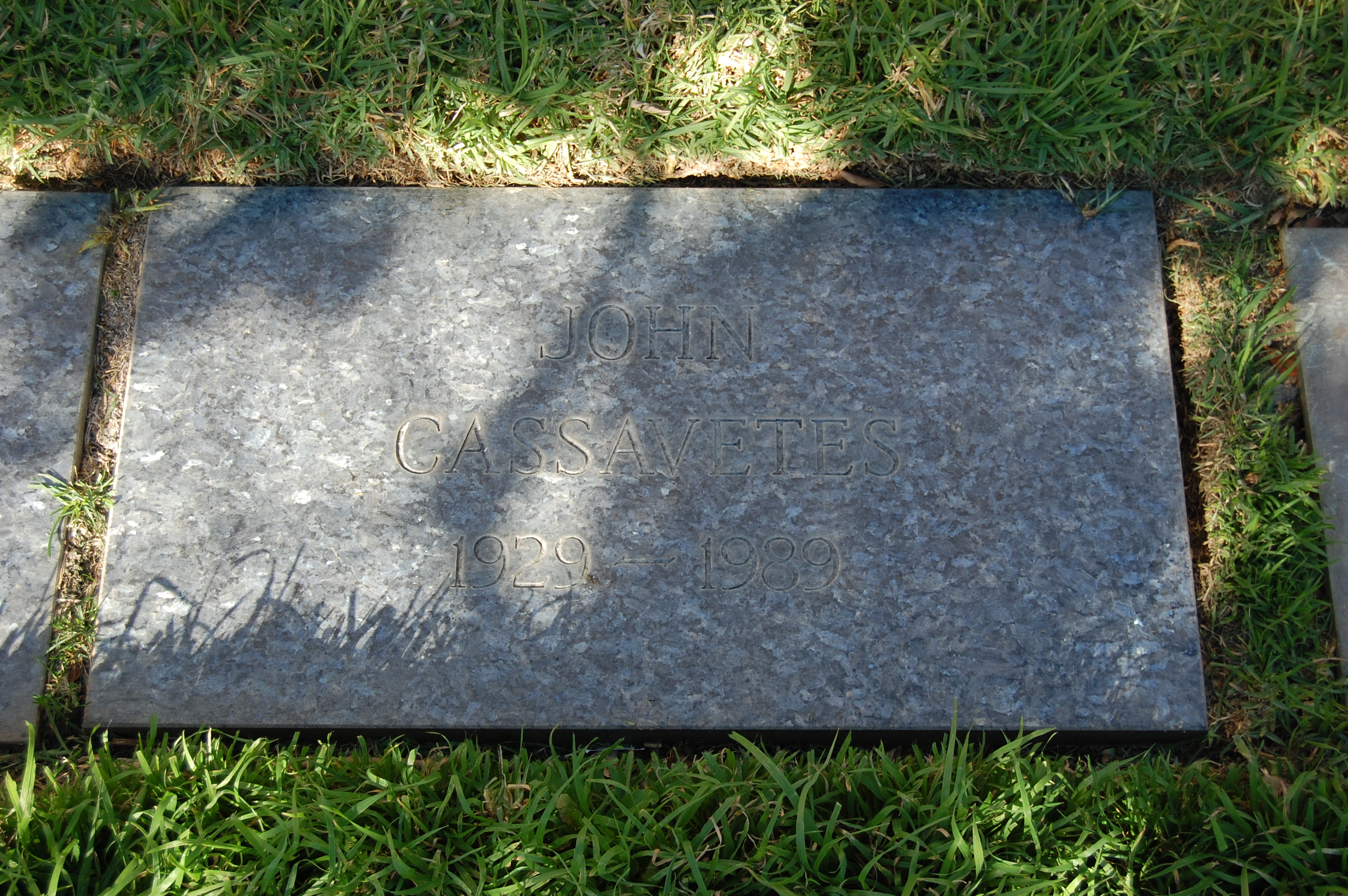 John Cassavetes grave at Westwood Village Memorial Park Cemetery in Brentwood, California. December 2011.